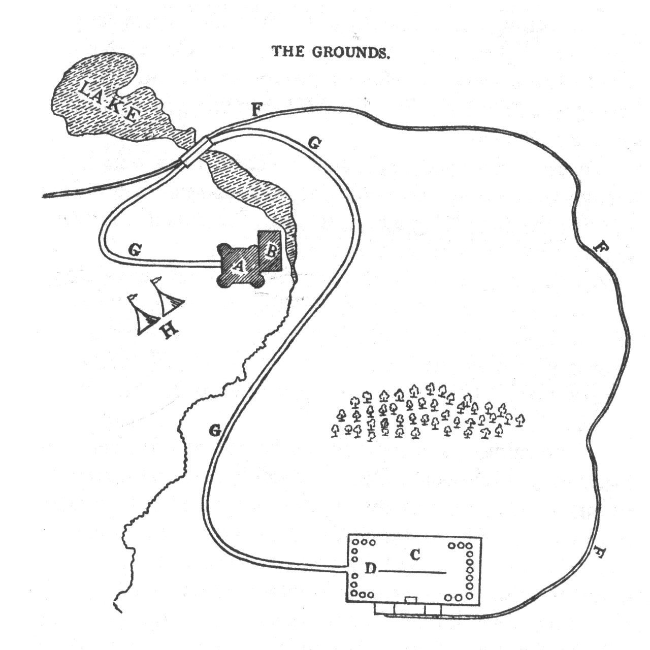 A map of the Eglinton Tournament grounds in 1839, Ayrshire, Scotland.